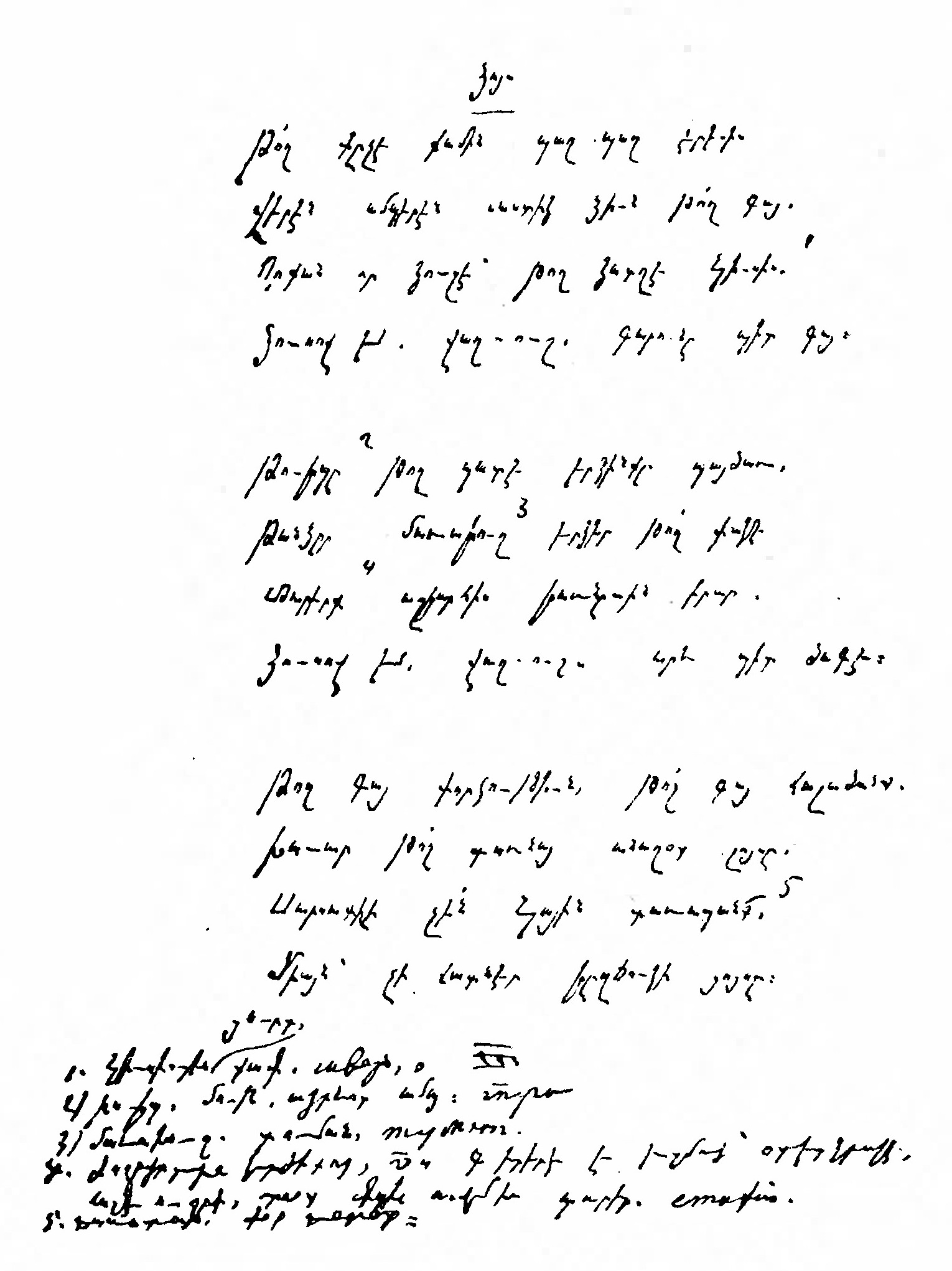 Raphael Patkanian, Collective works, volume 1